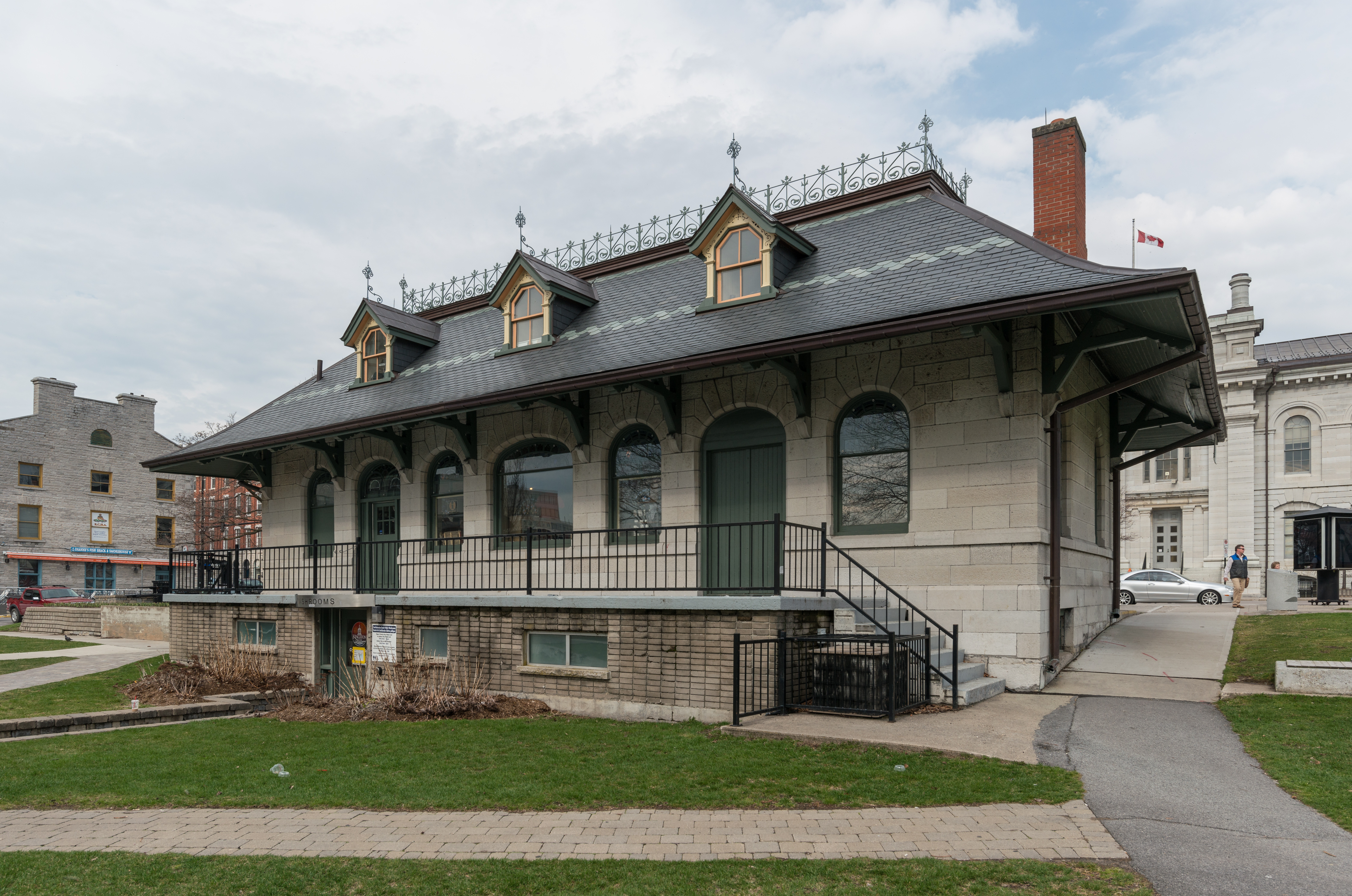 An east view of the visitor center in Kingston, Ontario, which is located close to the waterfront